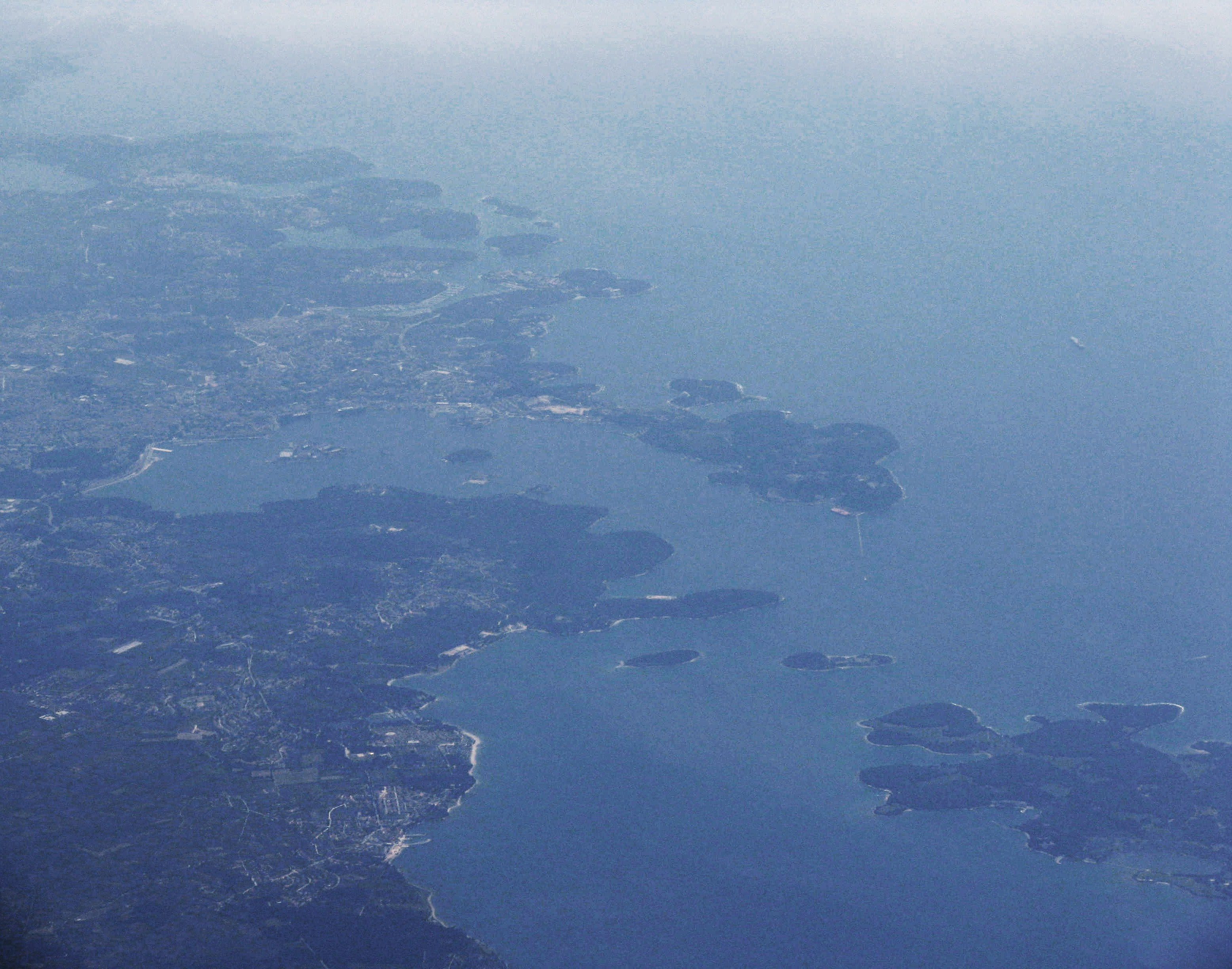 Aerial view of Pula bay and Brijuni islands